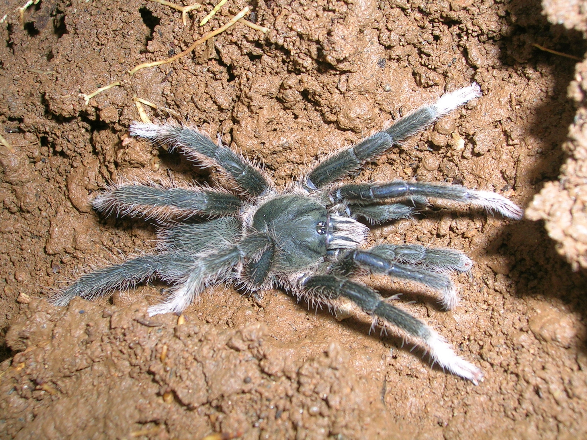 Annandaliella travancorica, Wayanad, Kerala